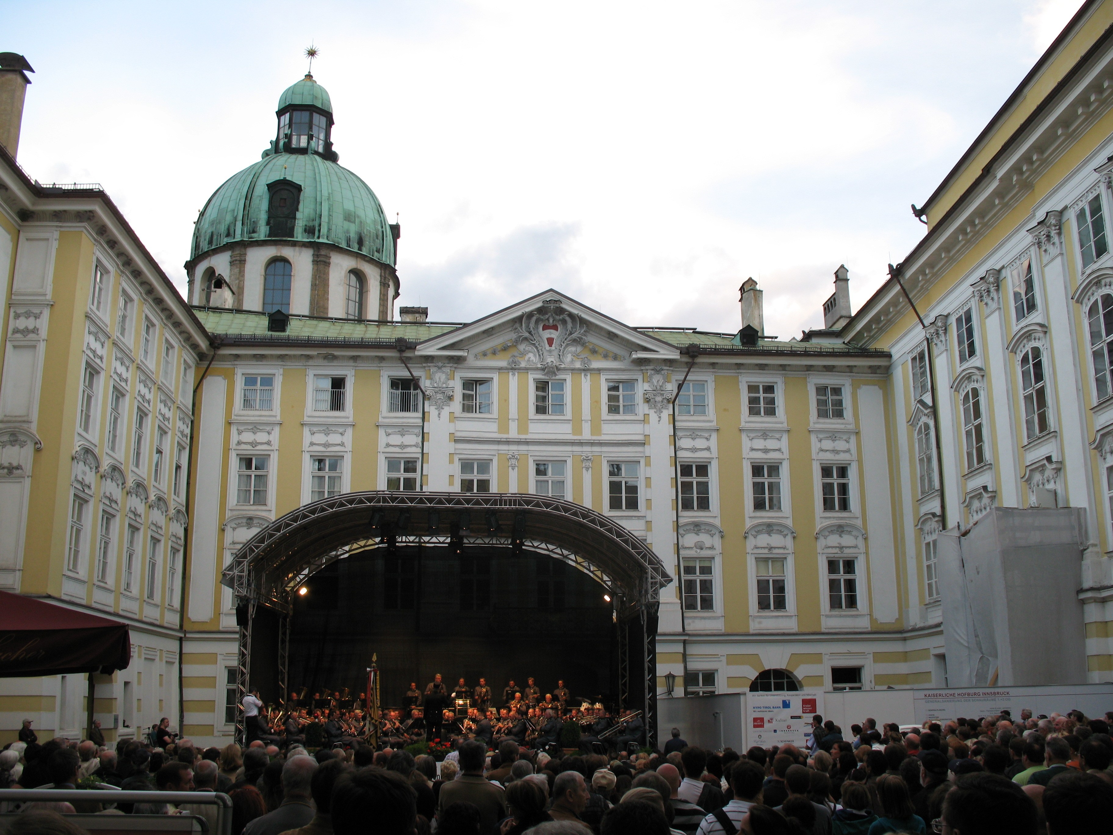 A band performing traditional German music at the Imperial Palace, Innsbruck, Austria